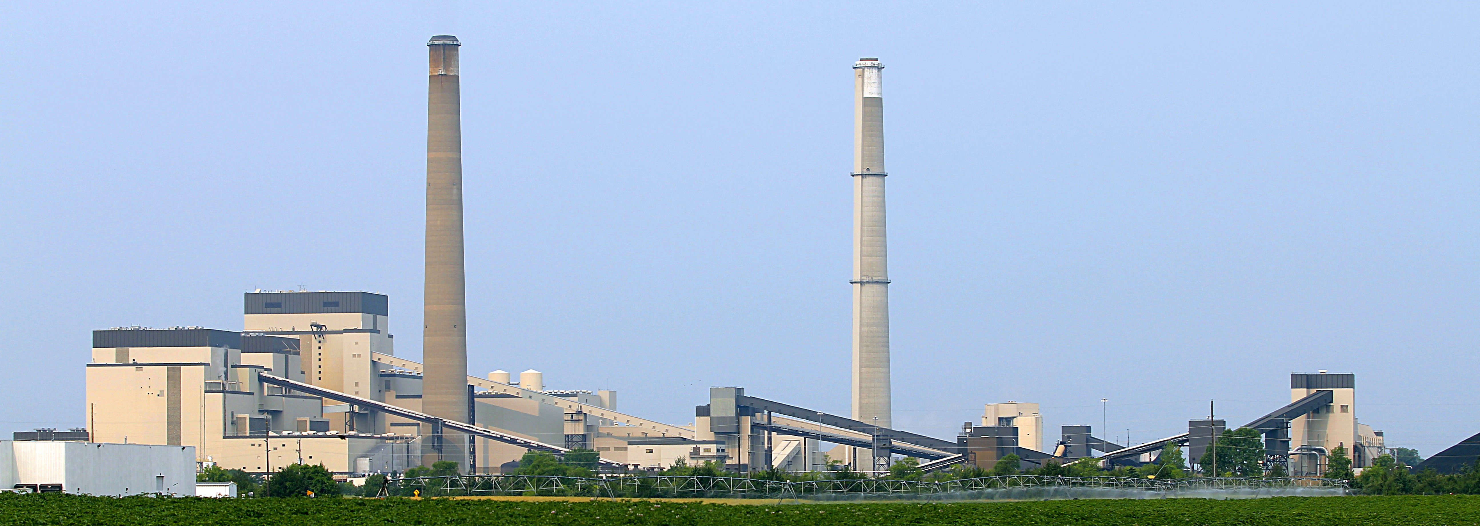 The Sherburne County Generating Station, also known as Sherco, the largest power plant in the state of Minnesota. It has a peak output of 2,400 MW, making it larger than the state's two nuclear plants combined (Monticello and Red Wing).